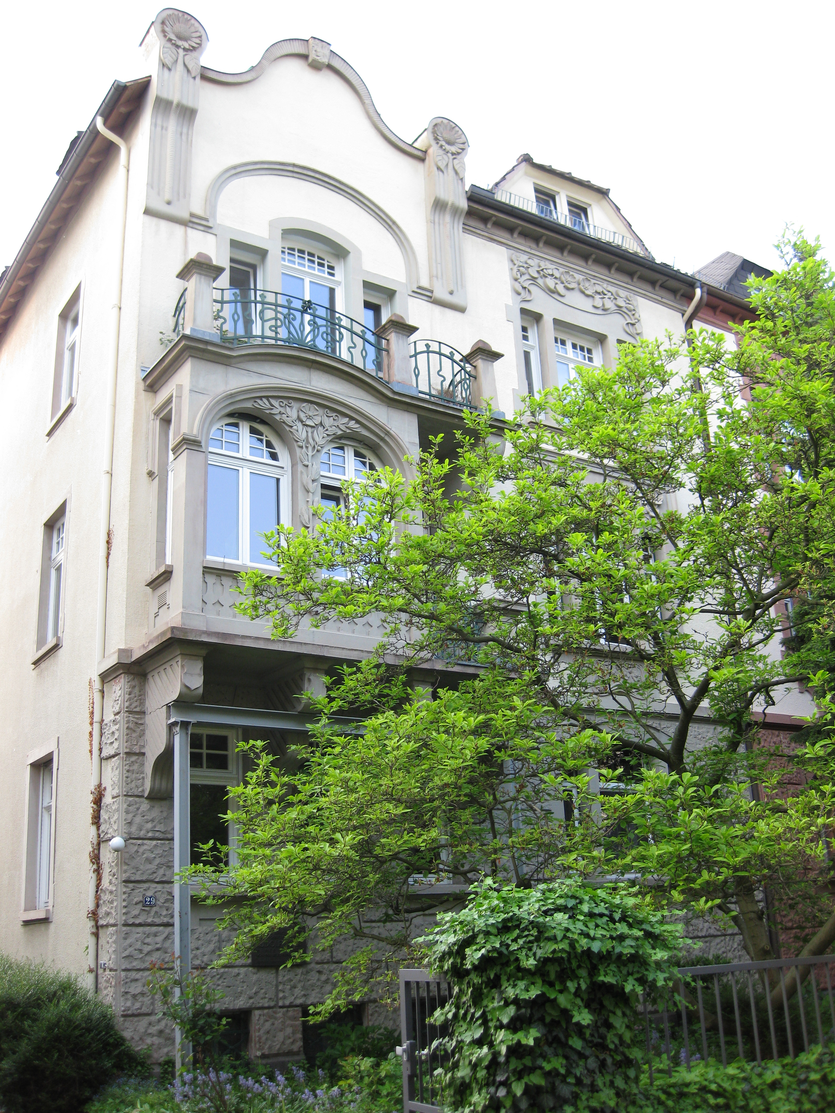 Buchrainweg Nr.29 in Offenbach. The house where Rudolf Koch lived